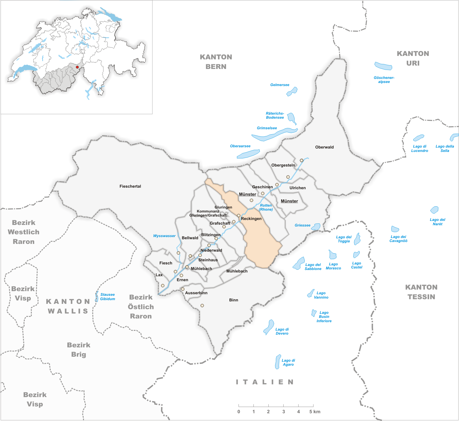 Municipality Reckingen